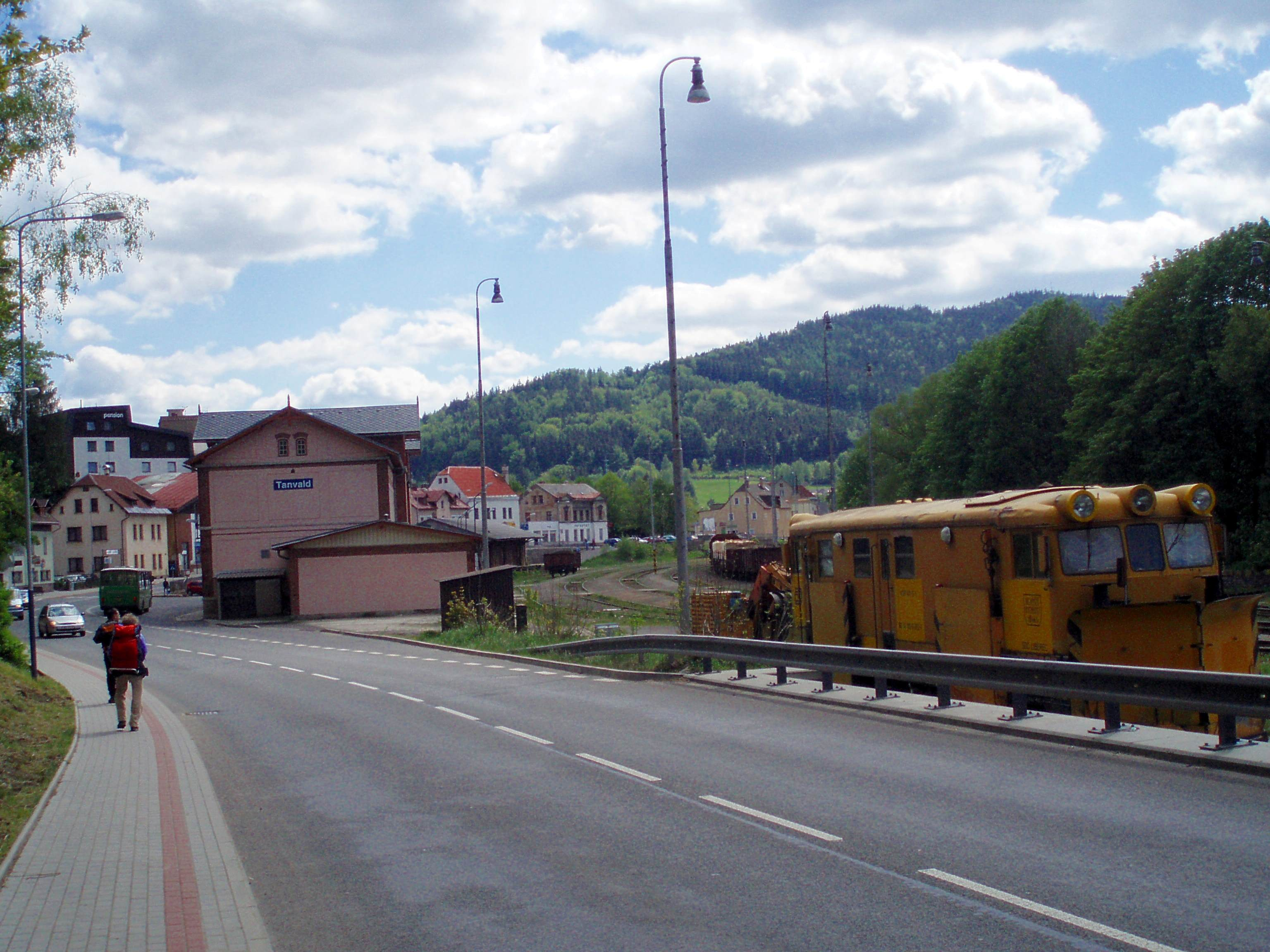 train station in Tanvald